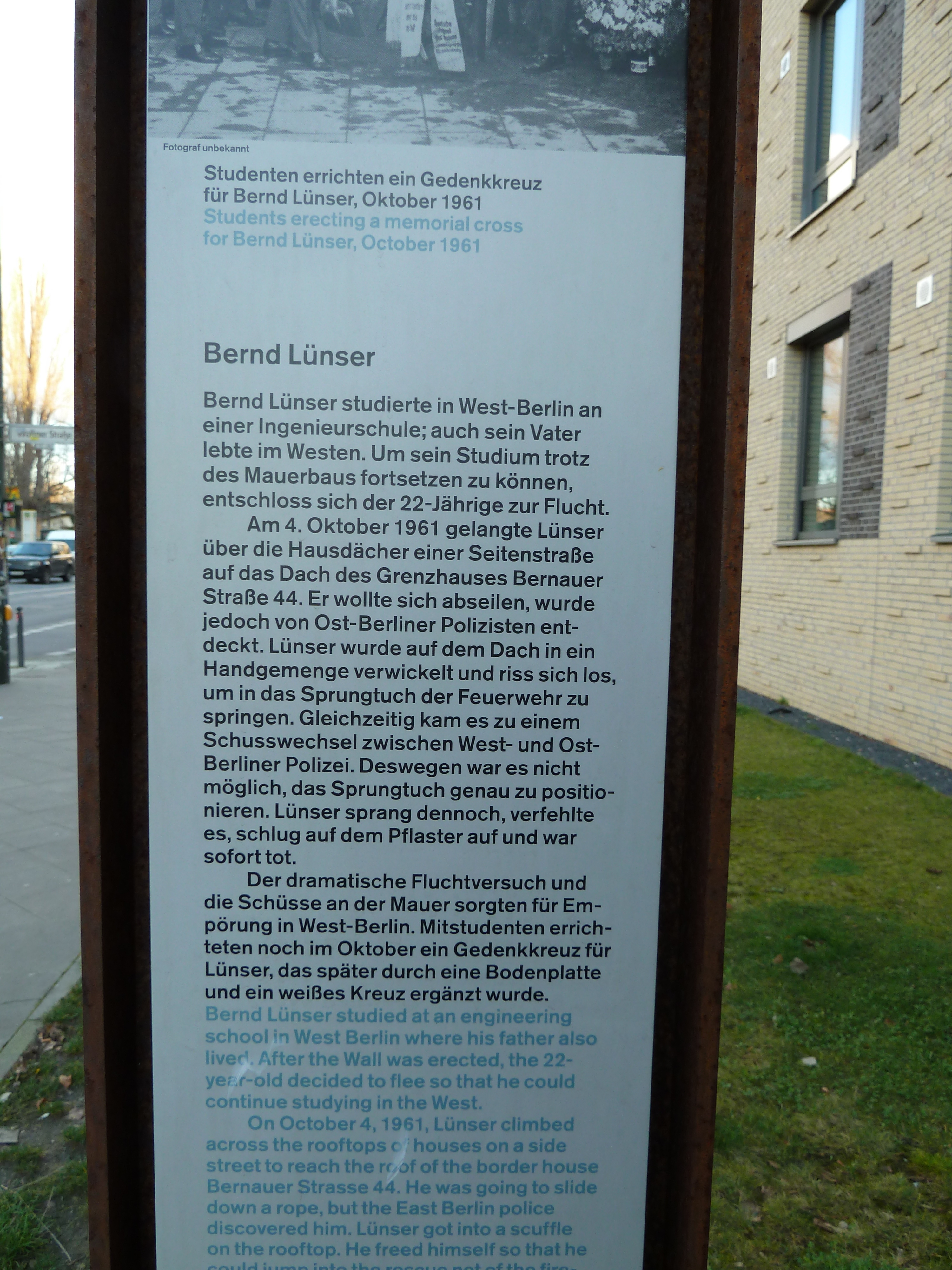 Bernd Lünser memorial steele (German portion), Bernauer Straße 44, Berlin.